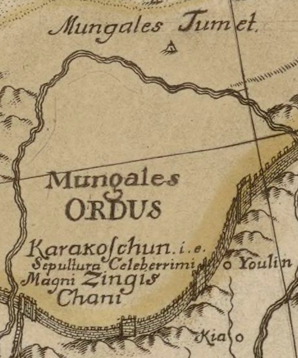 Genghis Khan Mausoleum in 18th century, on Von Strahlenberg map. « Mungales ORDUS - Karakoſchun i.e. Sepultura Celeberrimi Magni Zengis Chani »